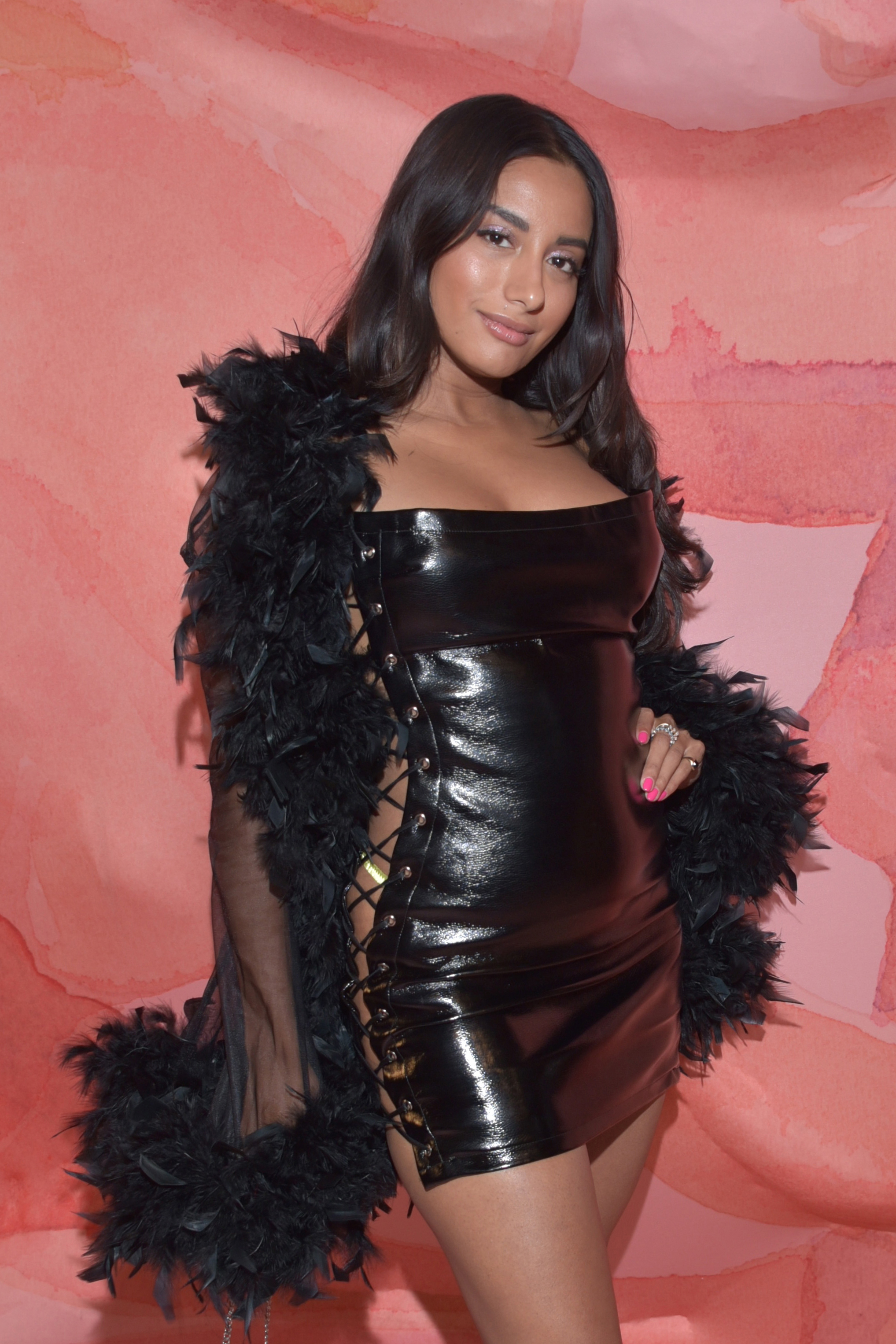 Model wearing a Black Feather Boa